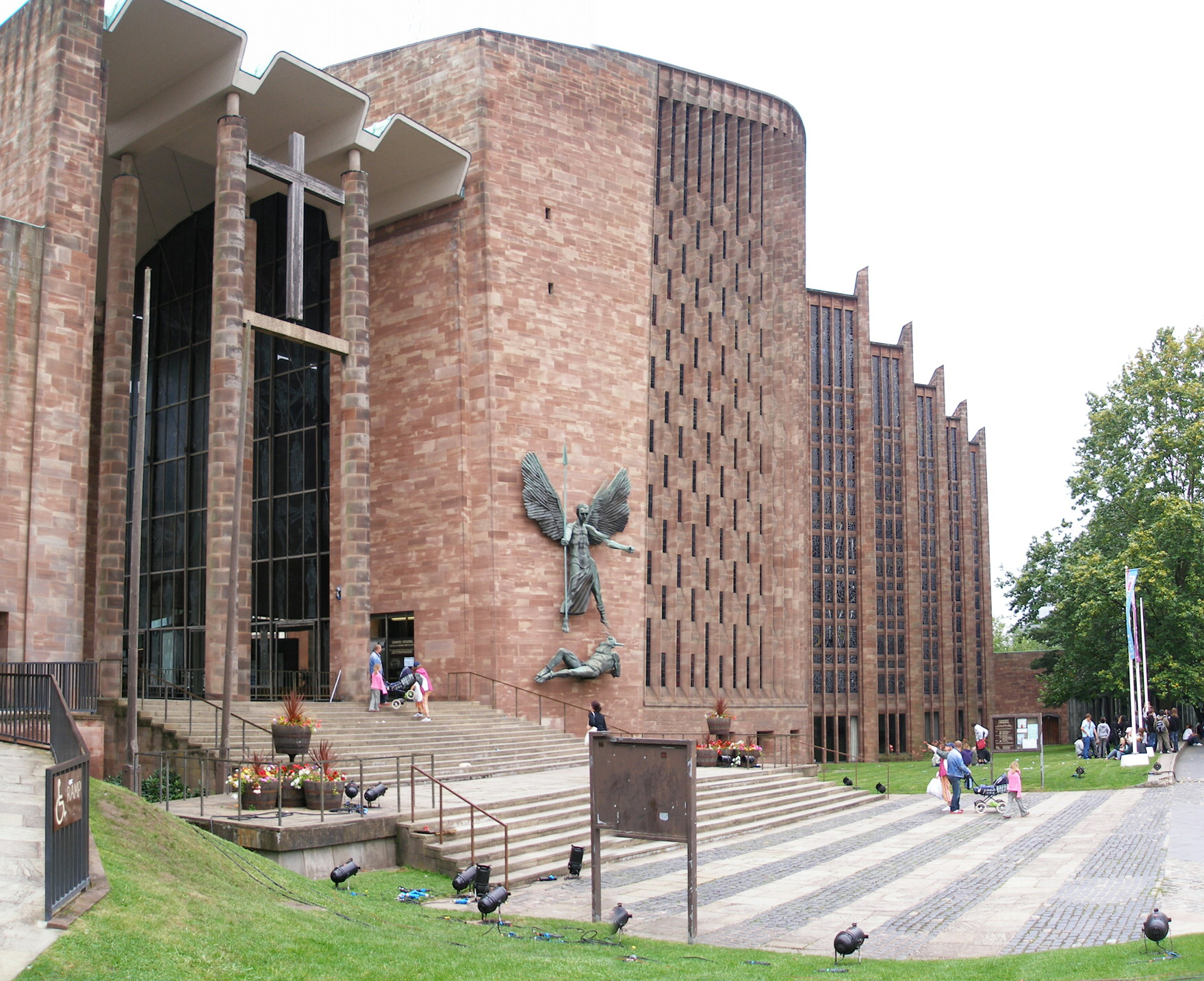 Coventry Cathedral